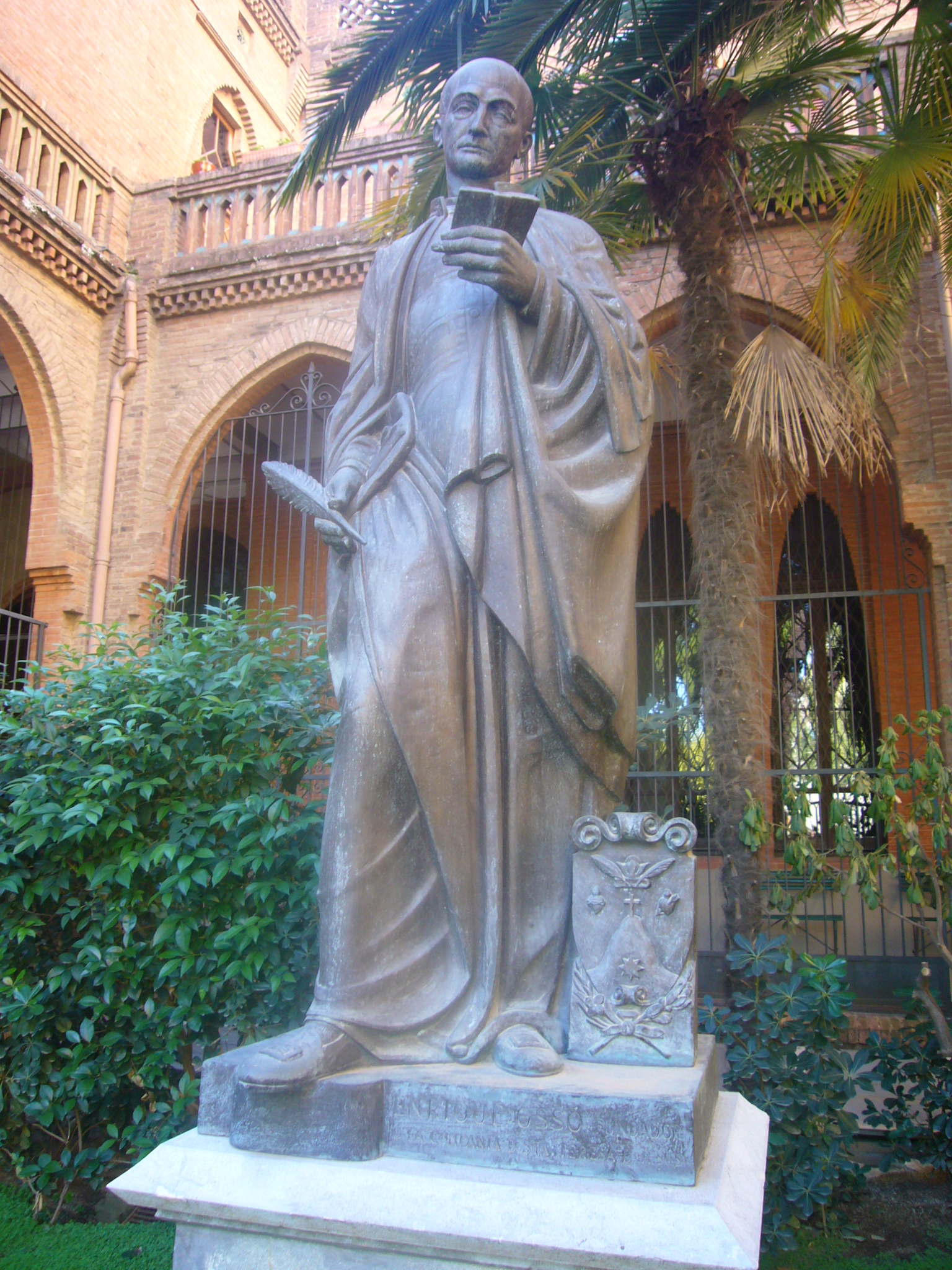 Les Teresianes school, by architect Antoni Gaudí, Barcelona. Seen during the Barcelona Open House days